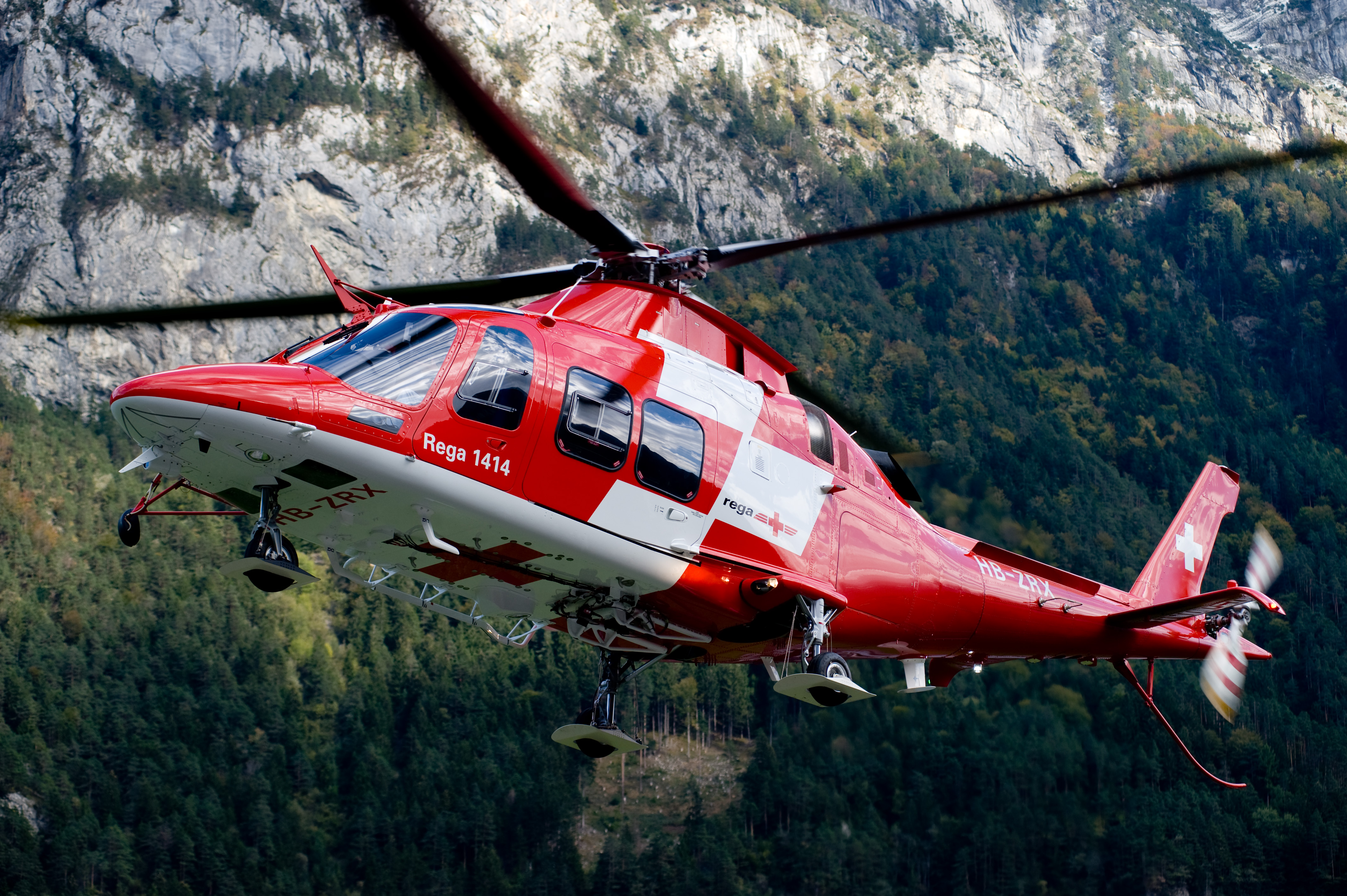 The 2009 introduced new Rega mountain rescue helicopter AgustaWestland Da Vinci in Erstfeld/UR (CH).